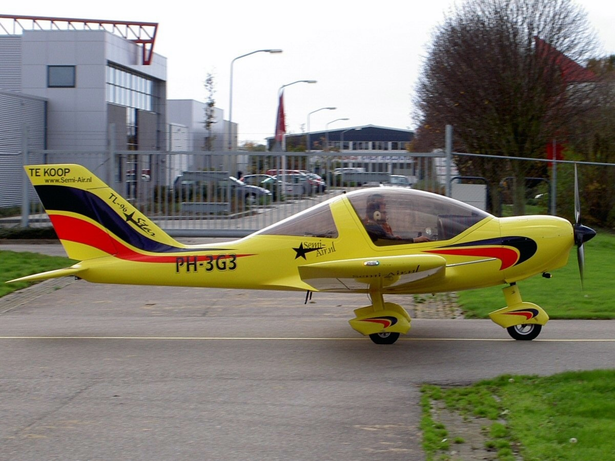 Photographed at Lelystad Airport.